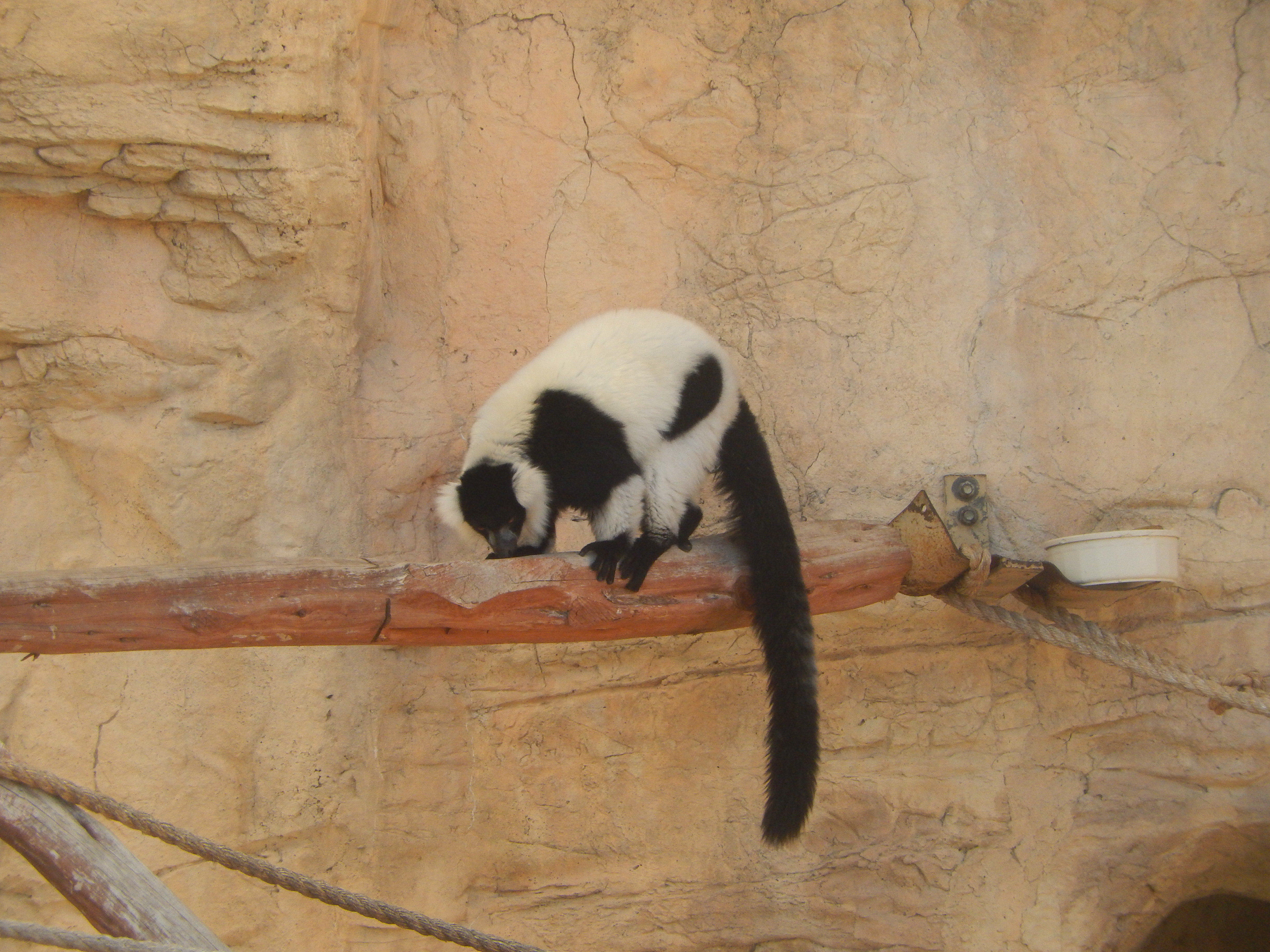 I took photo with Nikon camera of lemur at San Antonio Zoo.